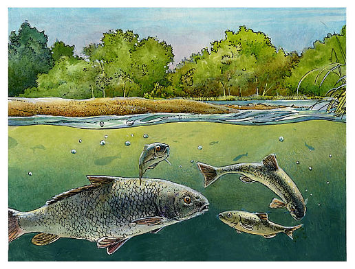 Illustration employs an above and below waterline technique to depict various habitats of a river ecosystem in the Missouri National Recreational River area. Shown in the cross-section of shallow water around a sandbar are sand shiners (Notropis stramineus), river carpsuckers (Carpiodes carpio), and/or plains minnows (Hybognathus placitus).